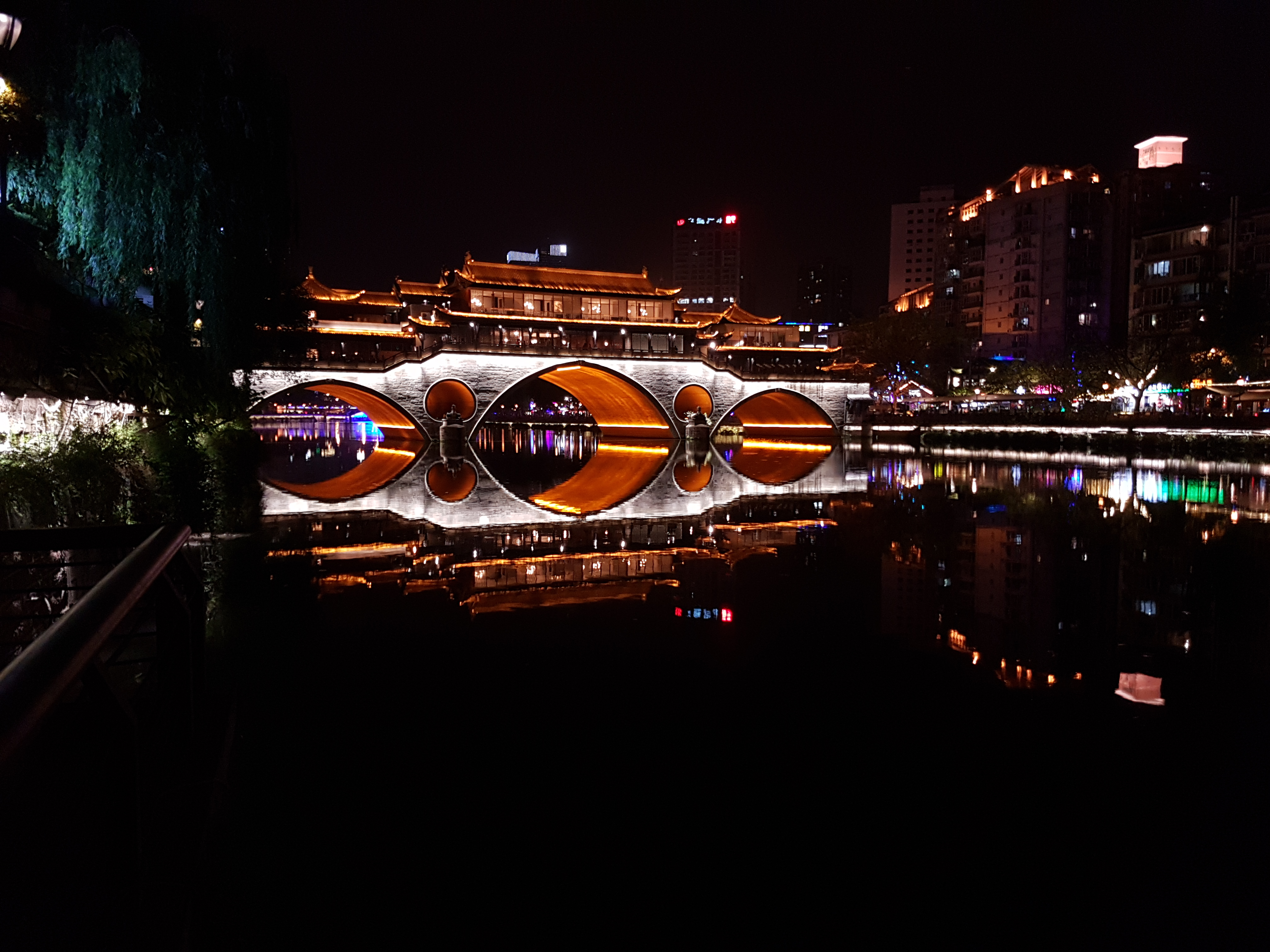 The Anshun Bridge in Chengdu, at night time.